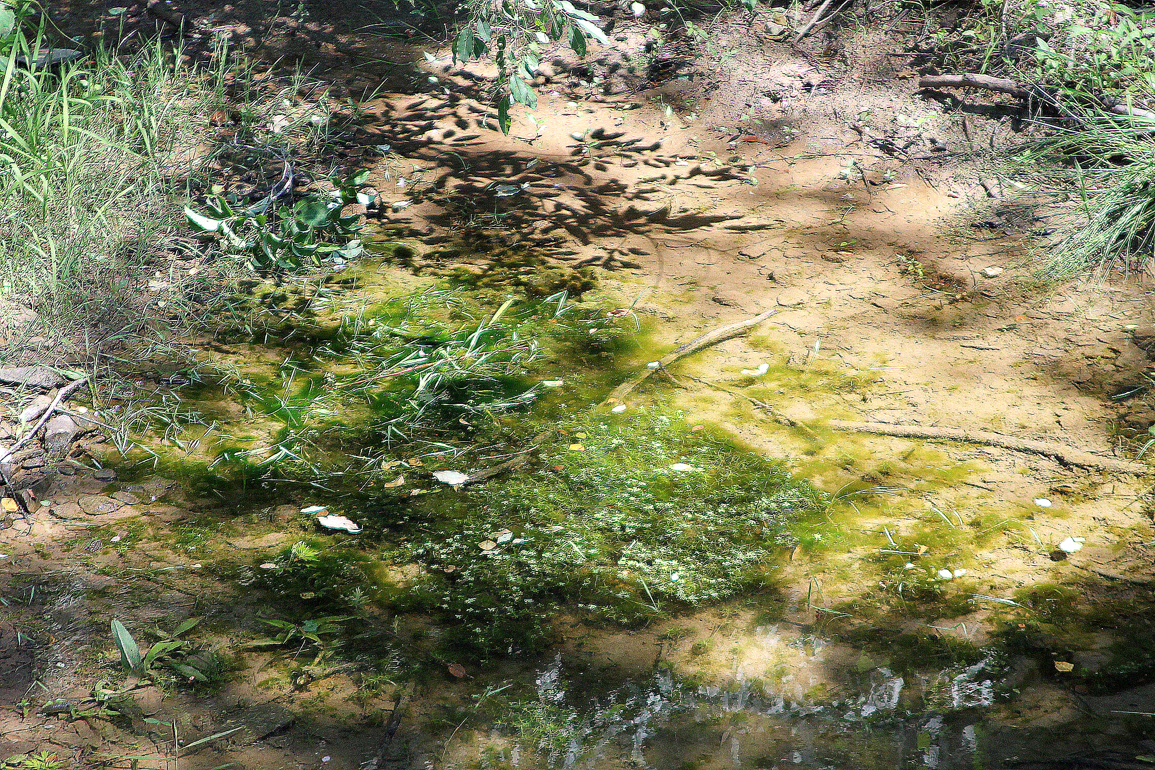 Algae patch on Green Creek, a tributary of Fishing Creek